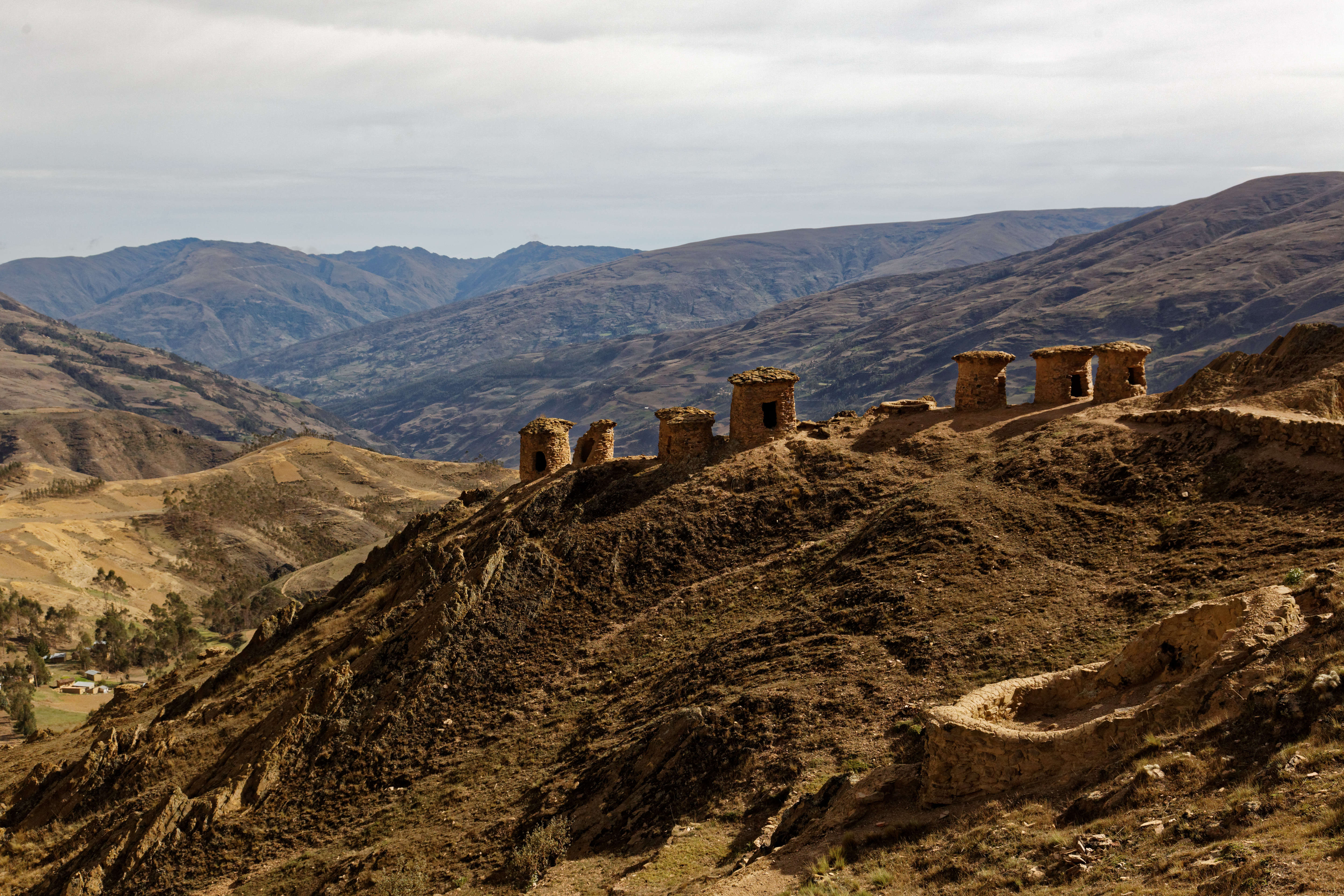 Chullpas (pre-Inca funerary towers)